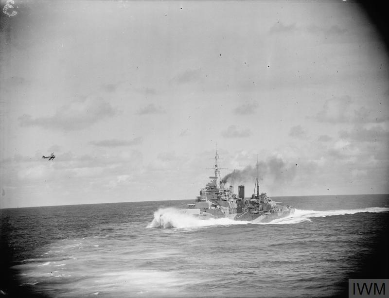 A CRUISER, HMS MAURITIUS, AND A DESTROYER, HMS NIZAM, AT SEA. SEPTEMBER 1942. HMS MAURITIUS at high speed.